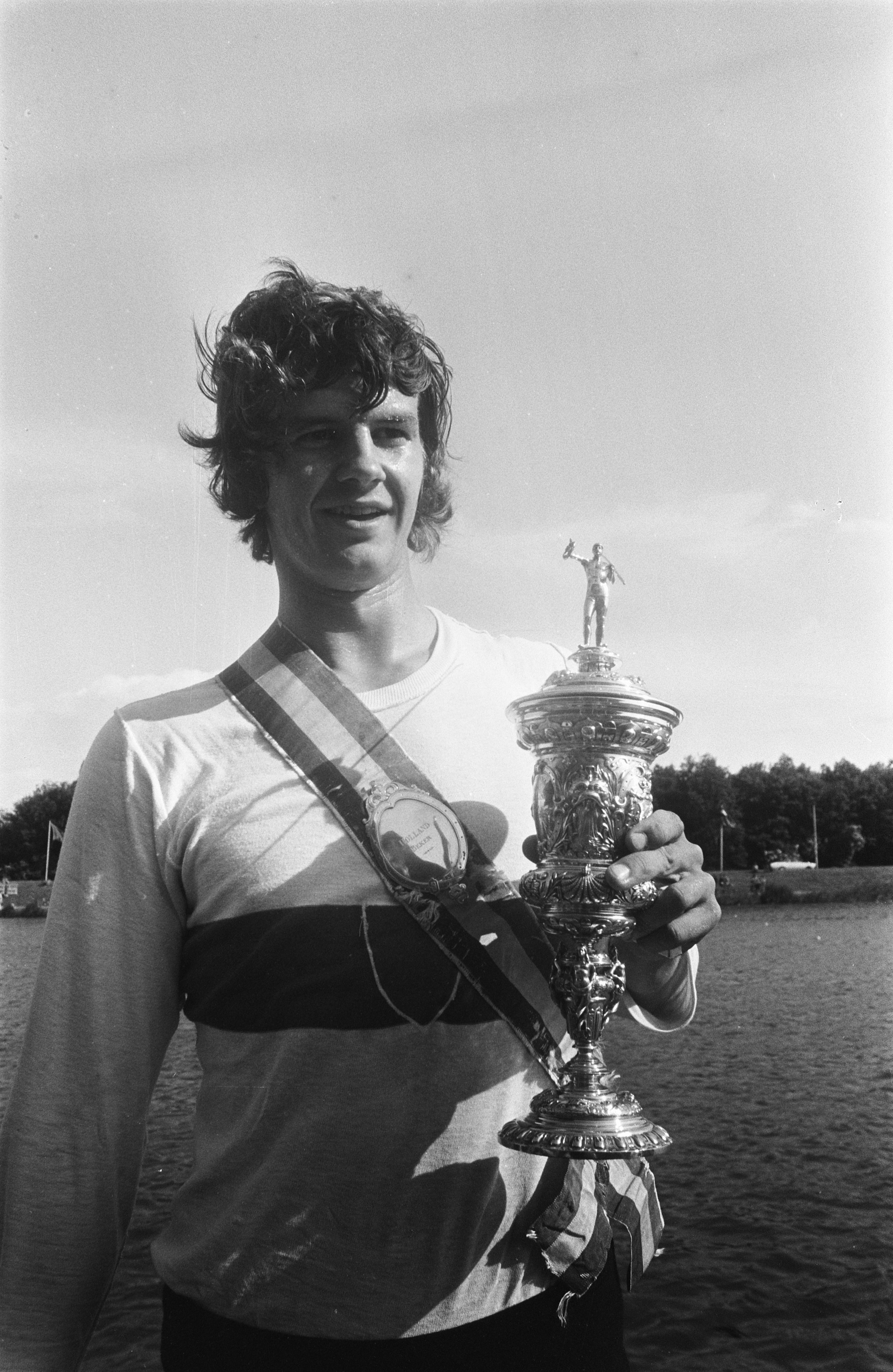 Peter-Michael Kolbe, Roeien op de Bosbaan in Amsterdam, Kolbe (West-Duitsland), winnaar van de Holland Beker